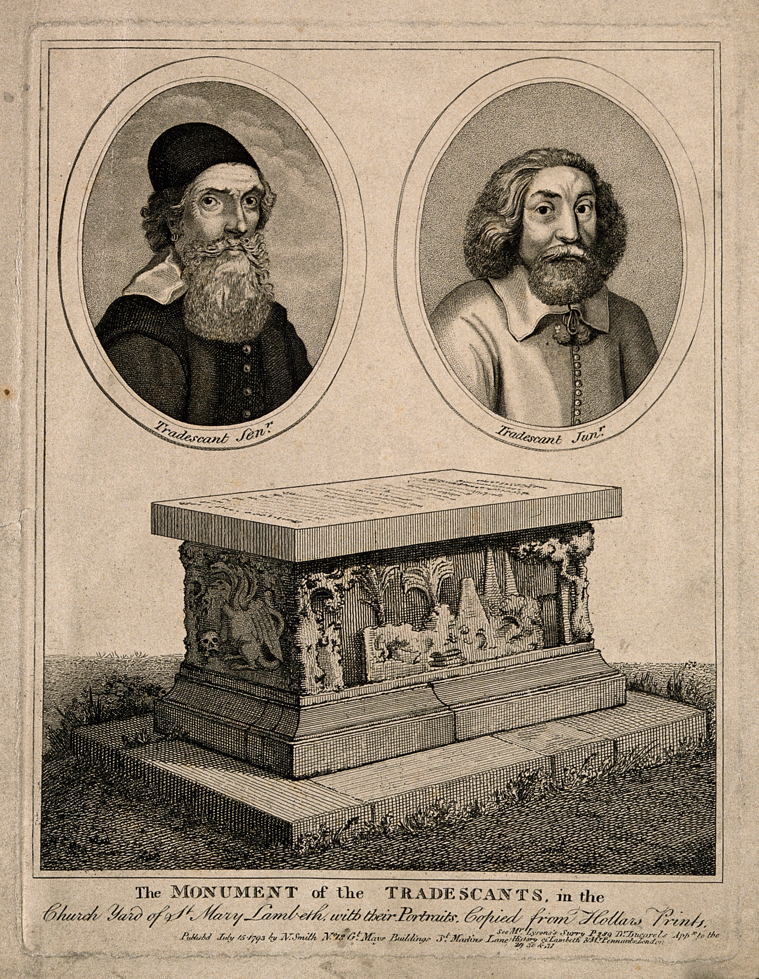 The Tradescants, father and son. Stipple engraving by N. Smith, 1793, after W. Hollar. Iconographic Collections Keywords: John Tradescant; N. Smith; Wenceslaus Hollar